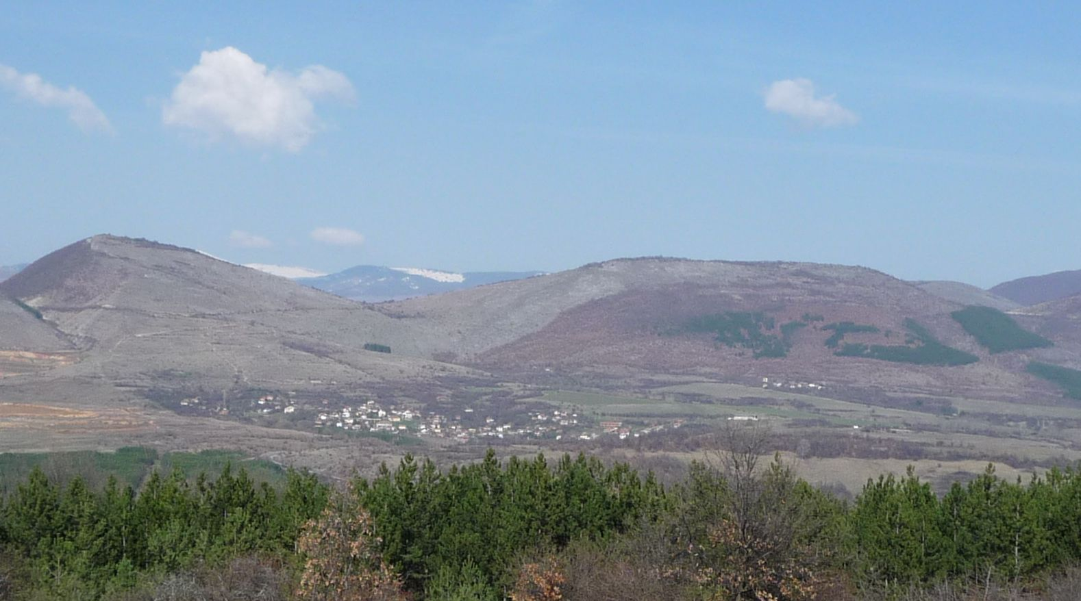 Village of Golesh, Godech Municipality, Bulgaria. View from south-south-west